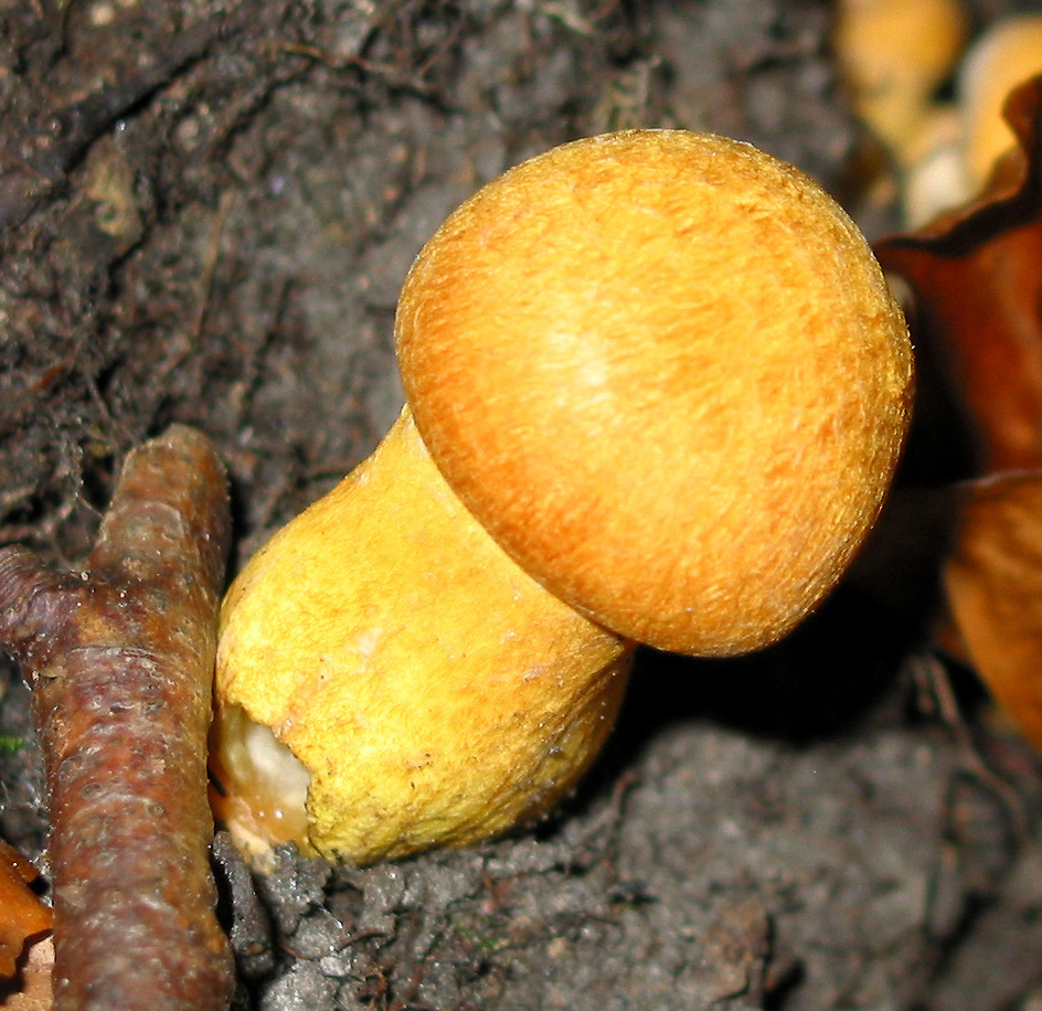 Laughing gym or Laughing Jim